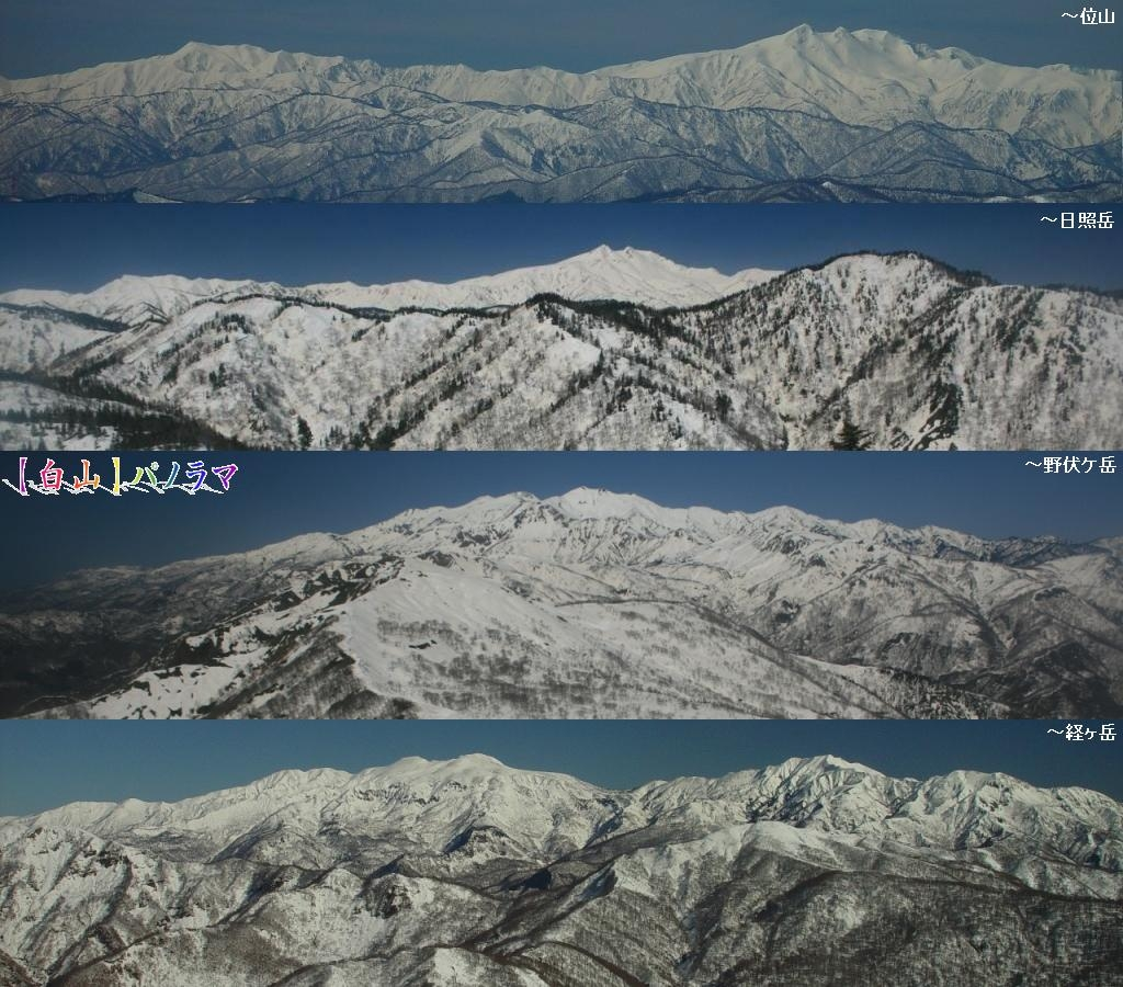 Mount Haku panorama_2009_4_7etc